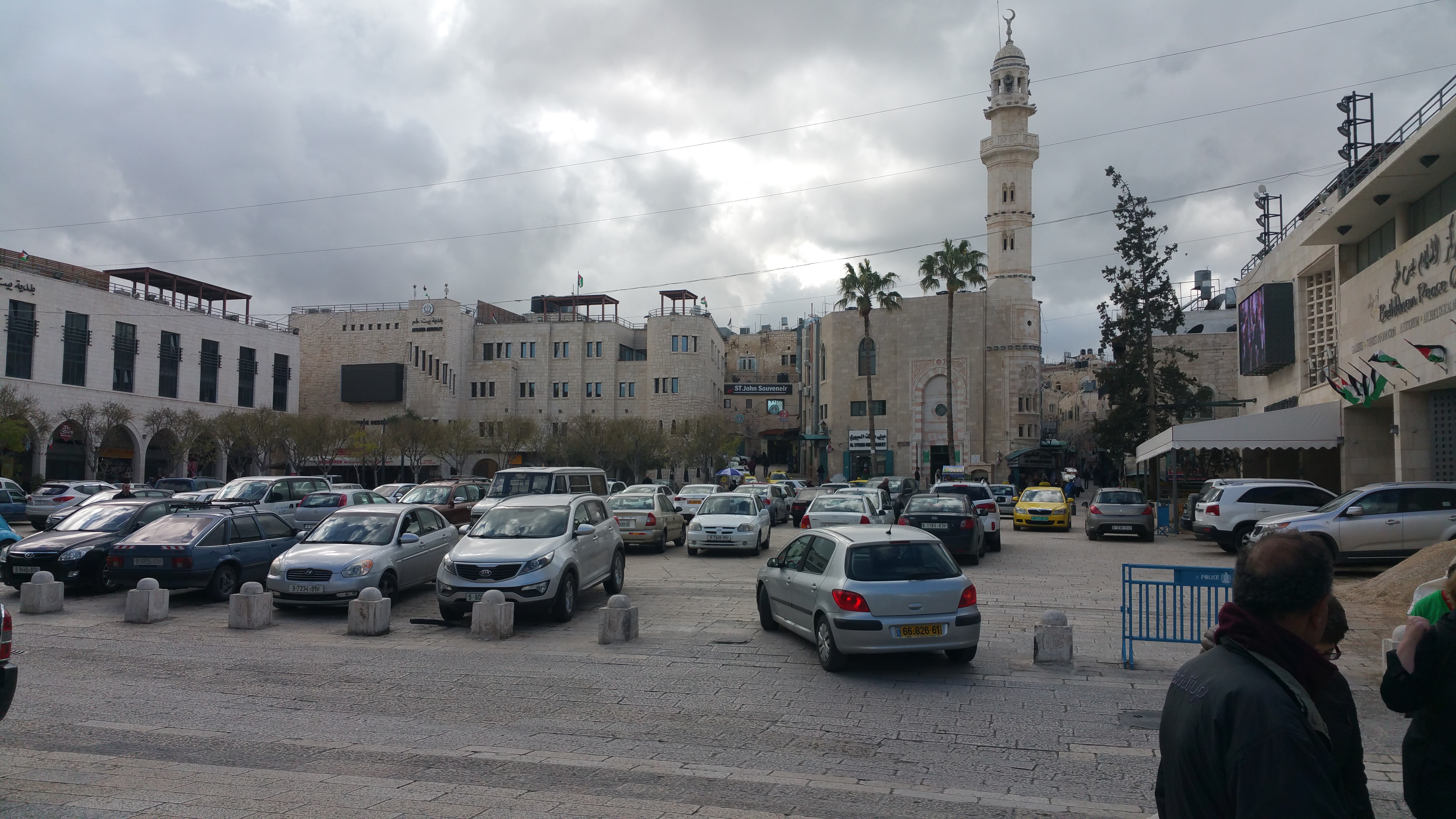 / Israel / Bethlehem / Church of the Nativity, Bethlehem Church of the Nativity, Bethlehem